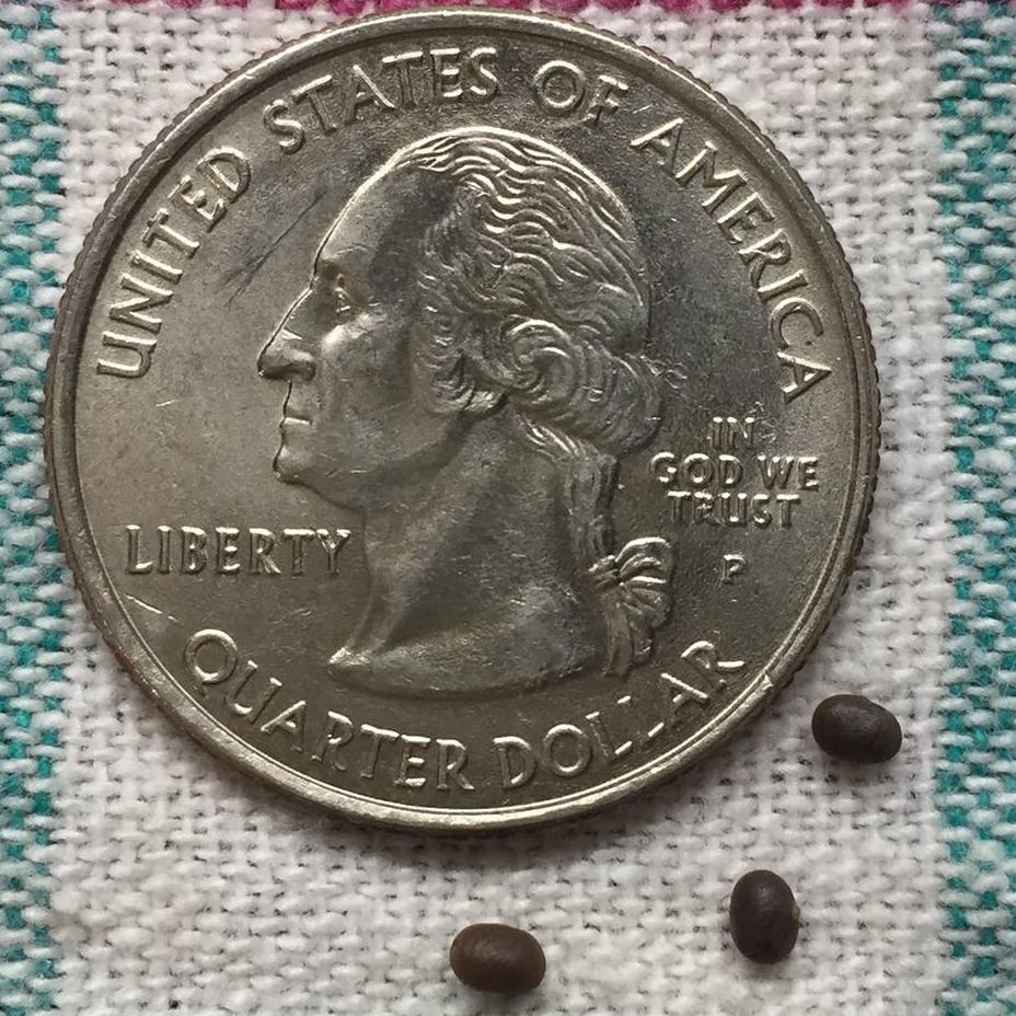 Rhus typhina seeds